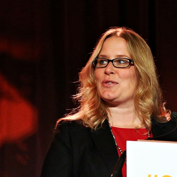 Cristin Dorgelo, Assistant Director, Grand Challenges, the White House Office of Science and Technology Policy discussed the importance of the new SunShot Catalyst competition.